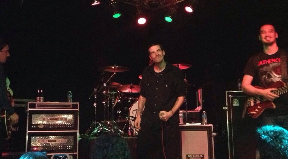 Dec 2013 Birmingham, AL